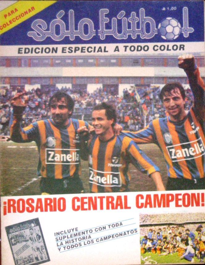 Campeones 1986-87